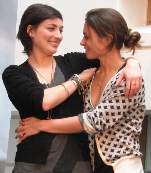 Dutch actors / presenters Viviënne van den Assem (left) and Froukje Jansen